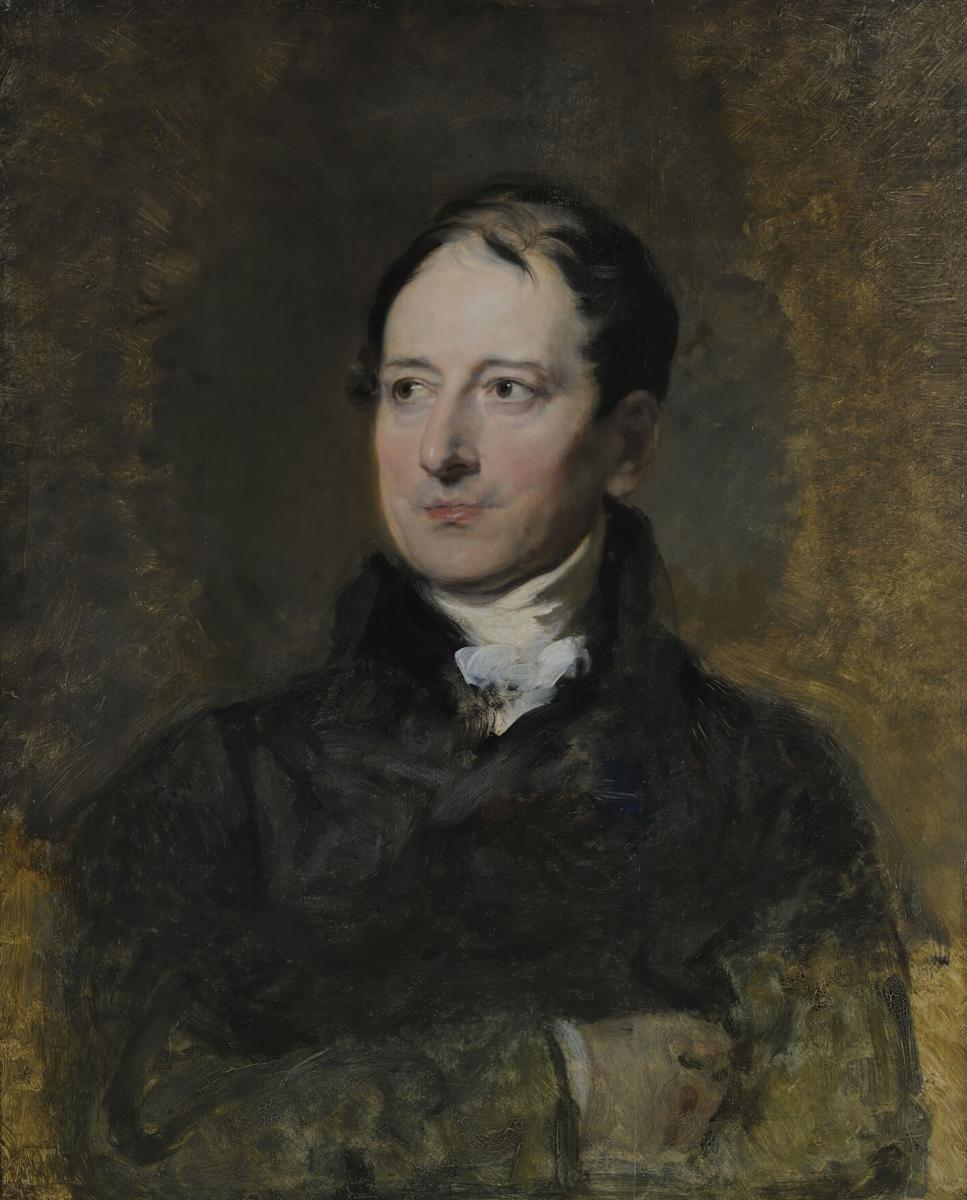 Portrait of François Pascal Simon, Baron Gérard (1770–1837) aged 54